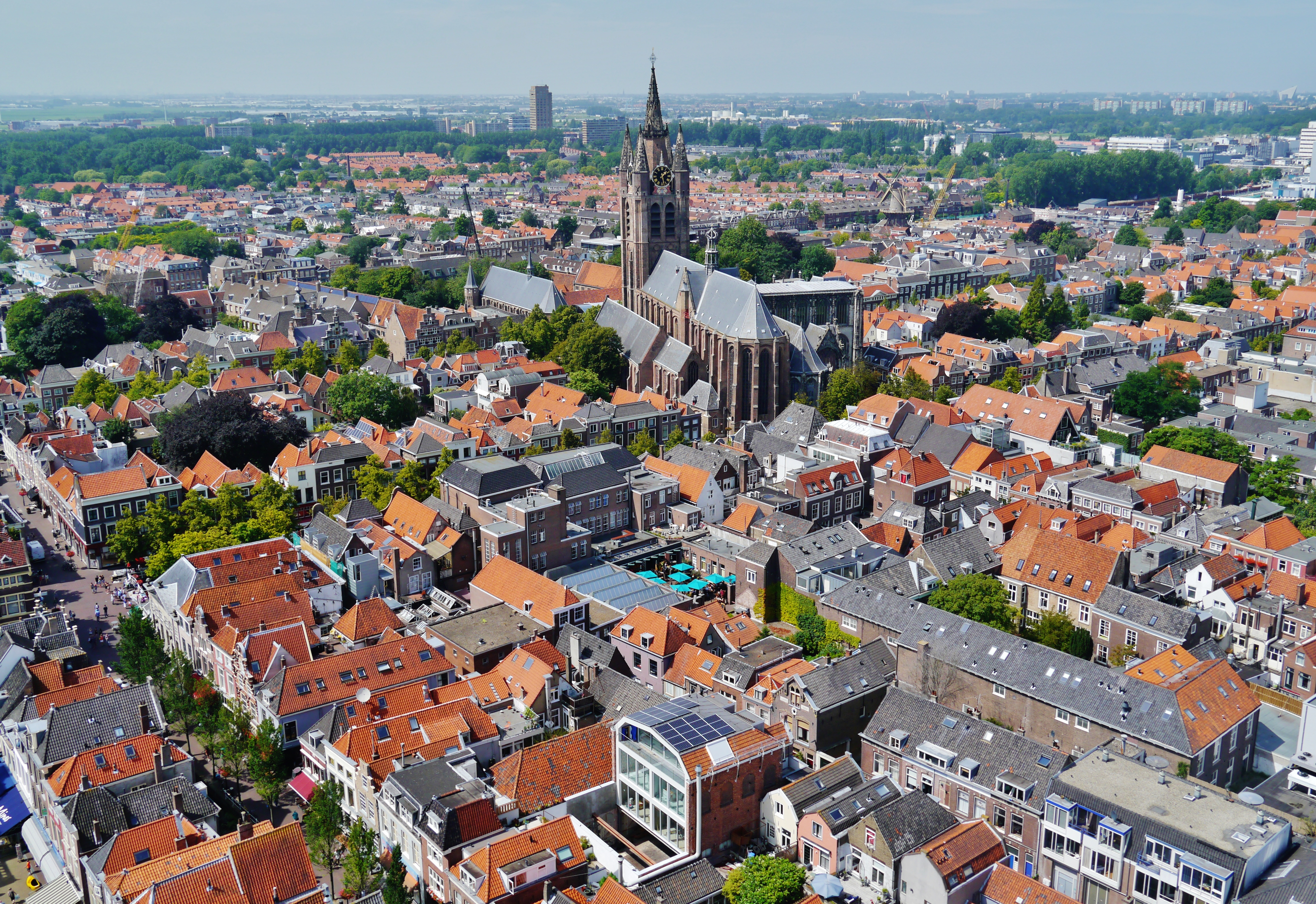 View from the New Church to the Old Church, Delft, Province of South Holland, Netherlands